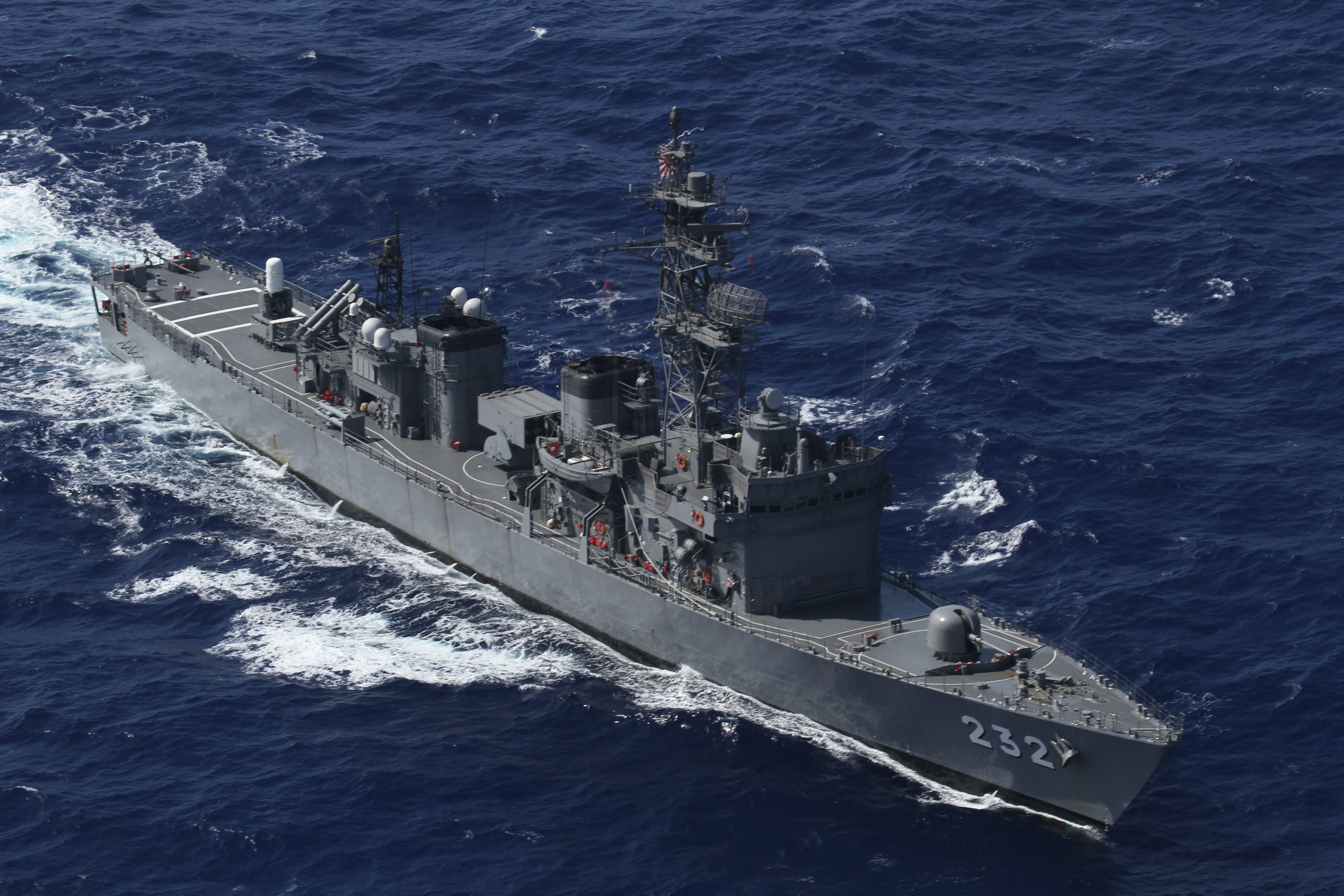 JS Sendai (DE-232)